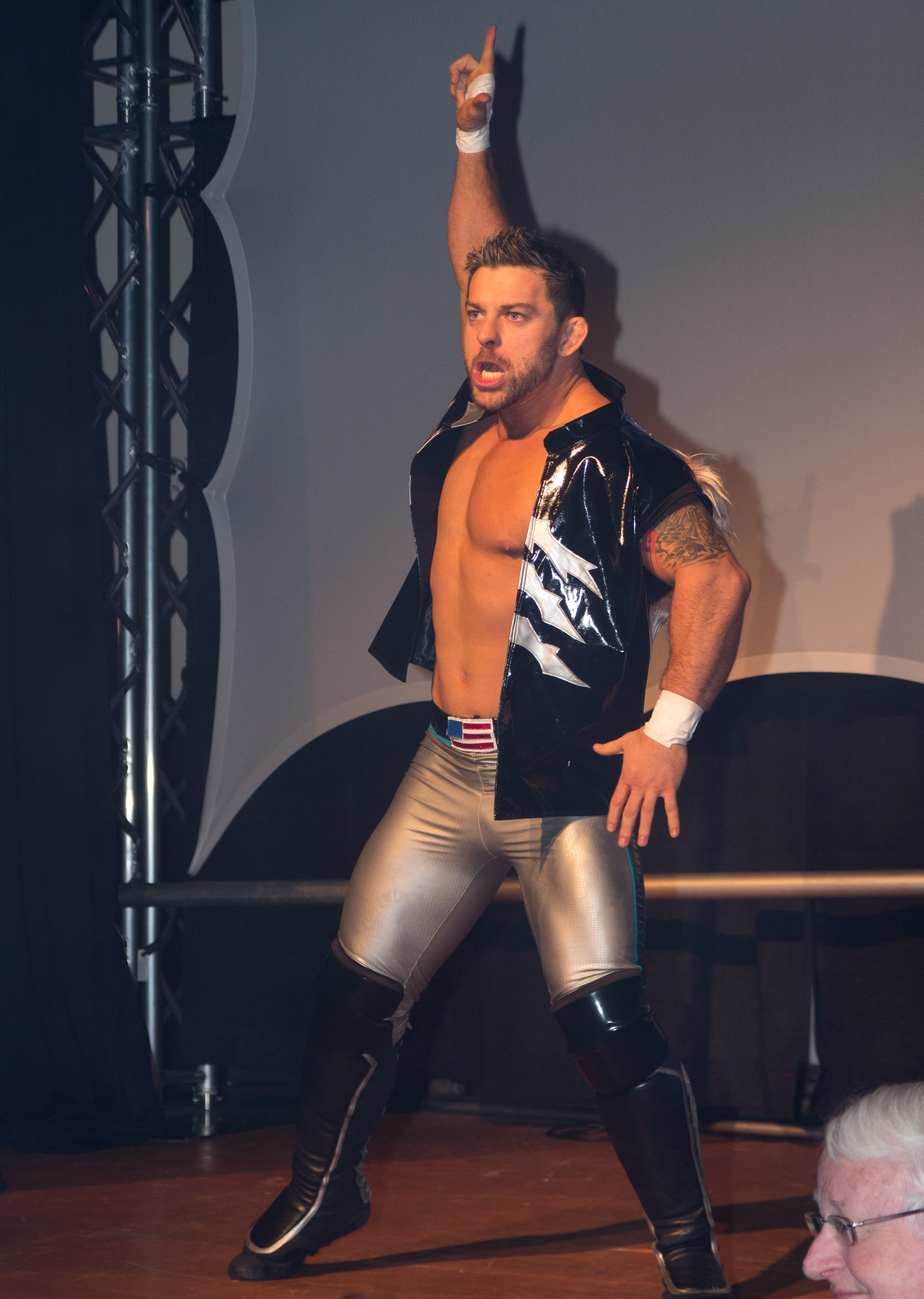 Professional wrestler Davey Richards making his entrance at an Squared Circle Wrestling show in Whitby